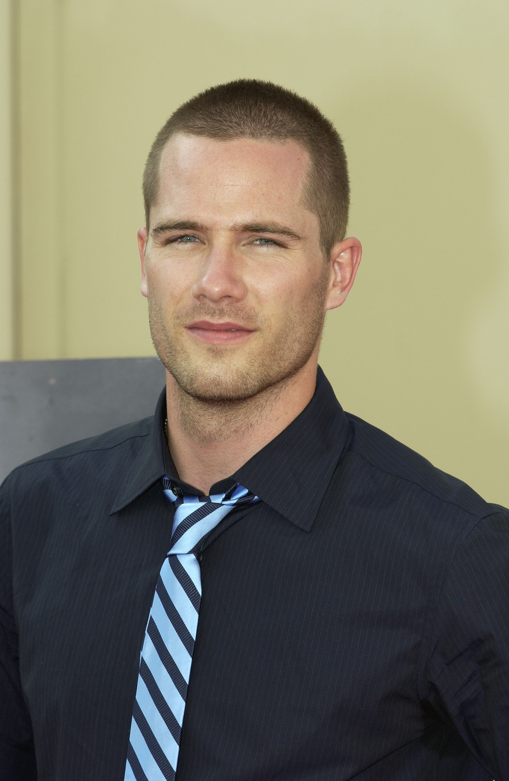 Luke Macfarlane after his performance in "The Jazz Age."